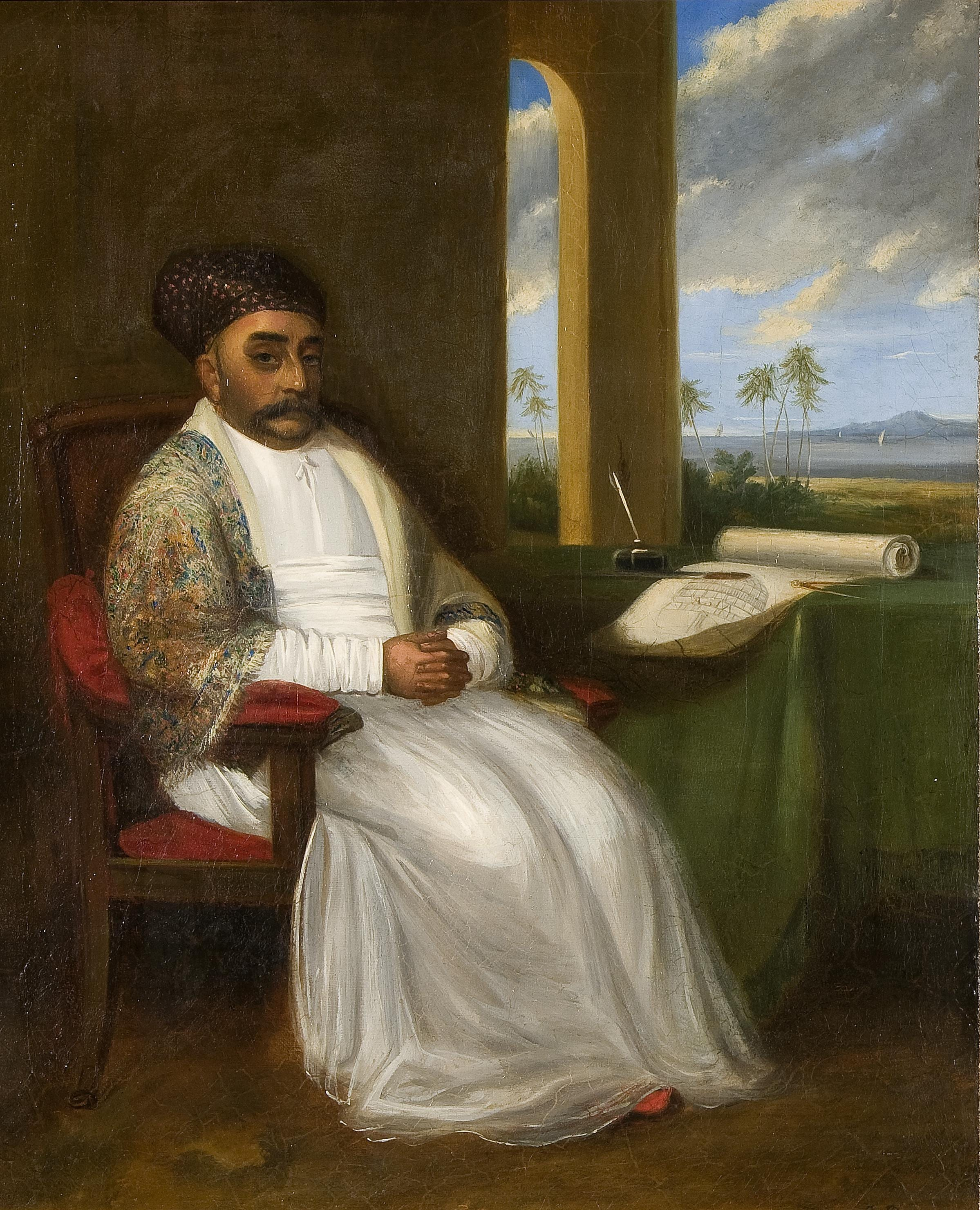 Nourojee Jamsetjee Wadia (1774-1860), son of Jamsetjee Bomanjee Wadia (1756-1821) , Parsi master shipbuilders. Ca. 1830. By an unidentified artist, J. Dorman (?), possibly a relation of J.J. Dorman who exhibited two oil paintings at the Royal Academy in 1855 and 1857. Oil on canvas. Presented by Sir Charles Forbes, 2 July 1836. measures 42 x 36 cm. RAS 01.007 Royal Asiatic Society of Great Britain In the portrait he holds plans of HMS Asia; and wears an embroidered pashmina shawl, it was customary for ship-builders to be given shawls by the representatives of the East India Company at the launching of a new ship. He was of the famous Lowjee family of Parsi shipbuilders active in Bombay from the early 19th century.